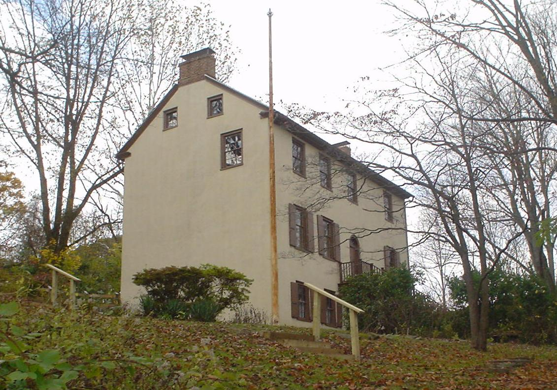 Nitre Hall, provided gunpowder during the American Revolution. On Cobb's Creek near Philadelphia. NRHP.